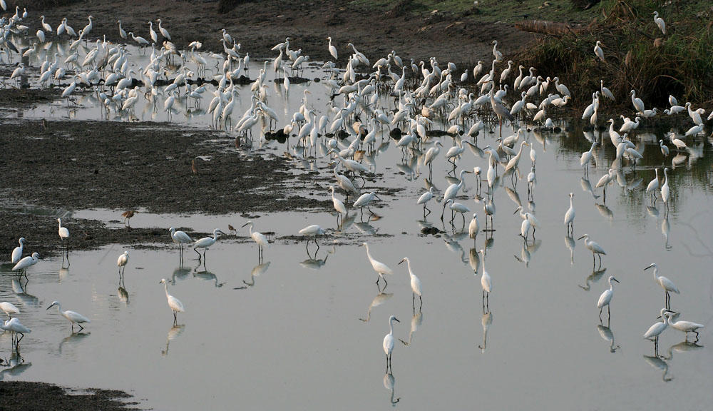 Mixed egrets, mostly Egretta garzetta, in Kolleru, Andhra Pradesh, India.